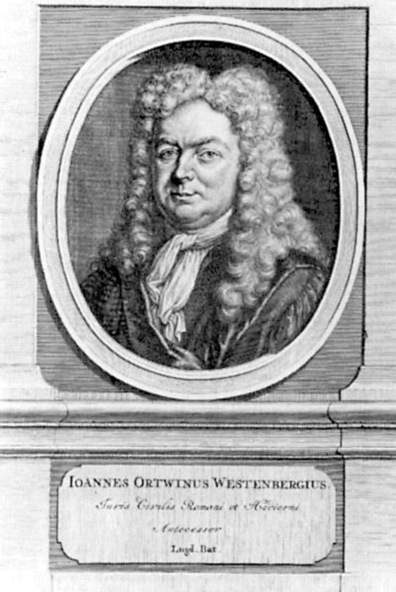 Johann Ortwin Westenberg (1667-1737) Jurist from Germany